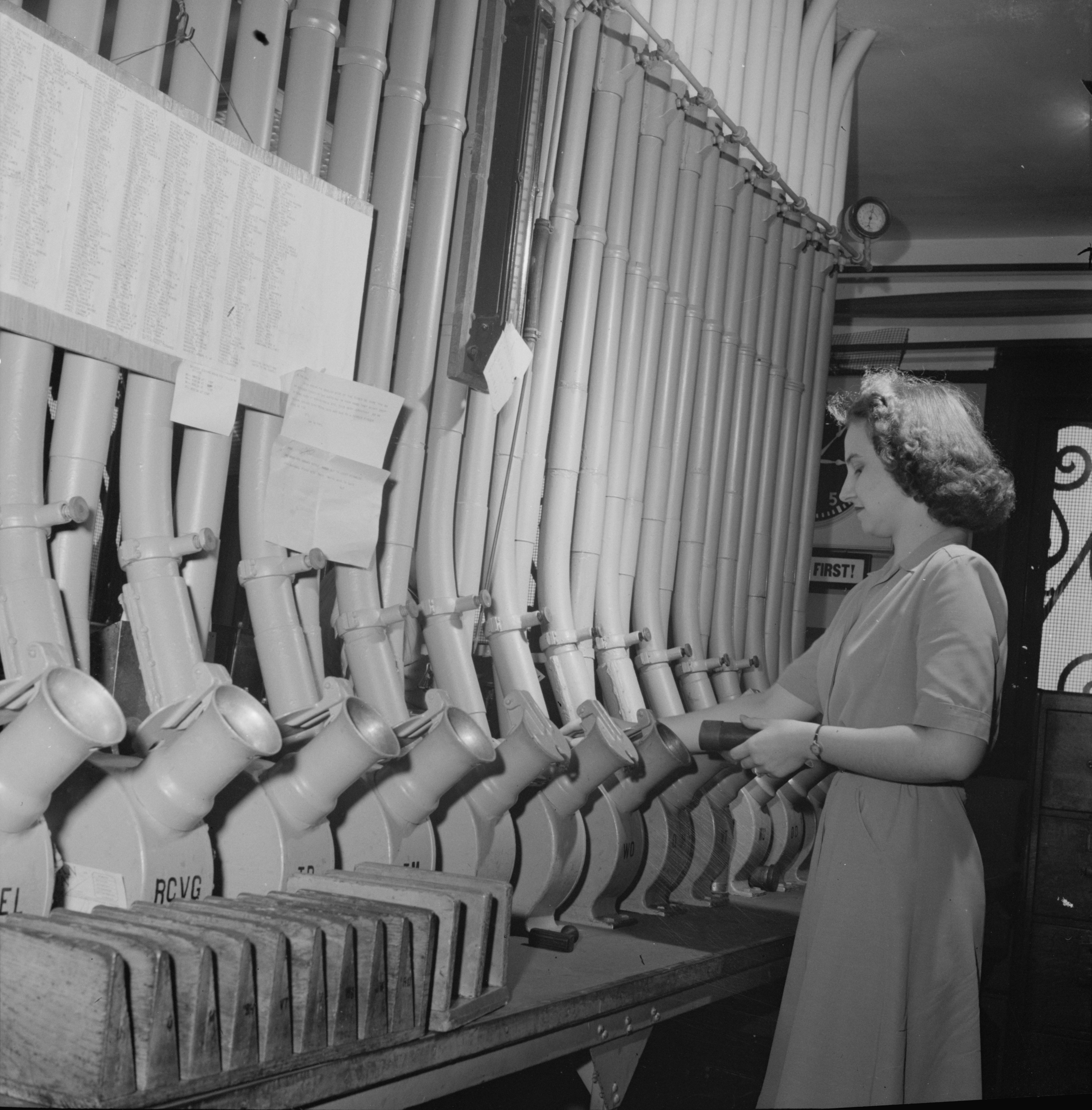 Washington, D.C. Miss Helen Ringwald works with the pneumatic tubes through which messages are sent to branches in other parts of the city for delivery